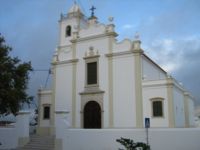 Igreja Matriz, in Porches (Lagoa), Algarve, Portugal